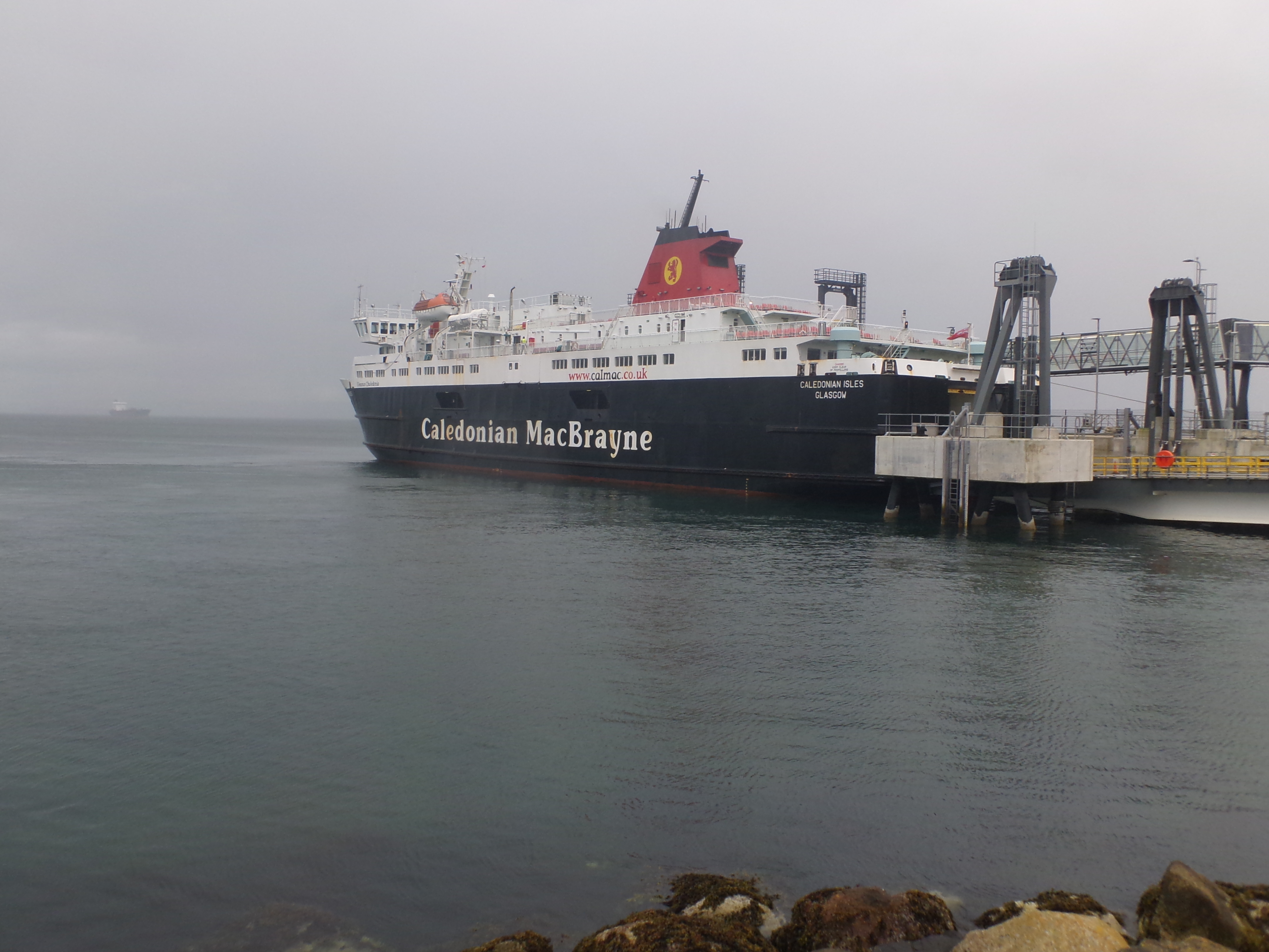 Caledonian Isles at Brodick